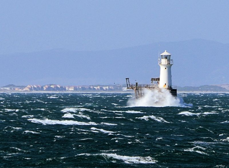 Roman Rock Lighthouse in False Bay. It is the only lighthouse in South Africa which is built on a rock in the ocean